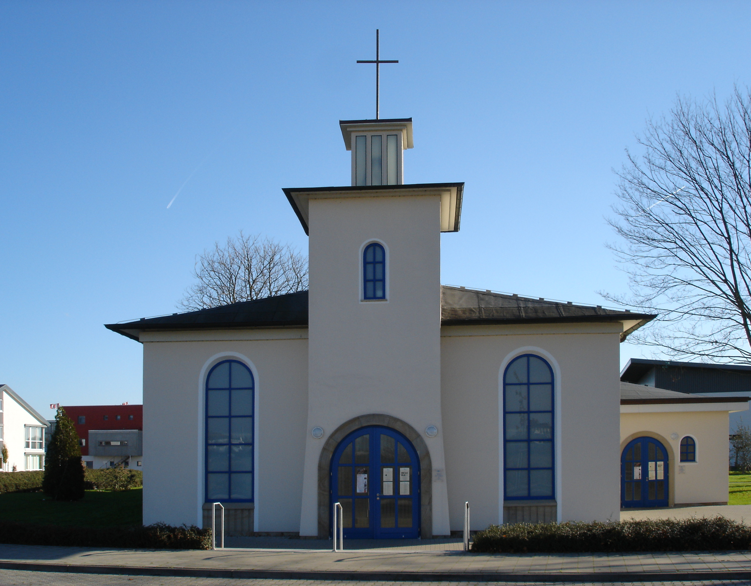 Loddenheide in the city of Münster (Westphalia), Germany: Friedenskapelle